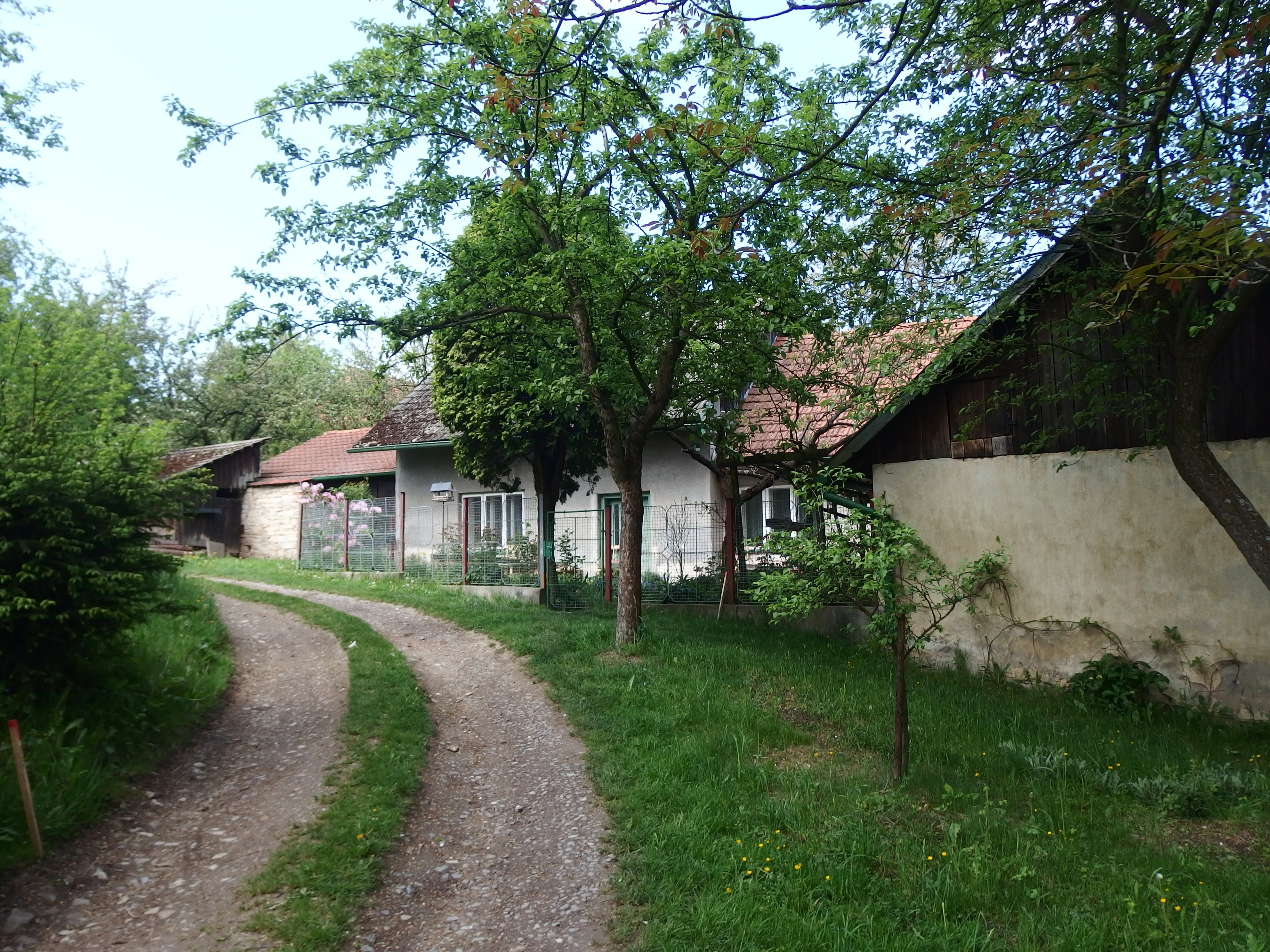 Luže, Chrudim District, Czech Republic, part Rabouň.